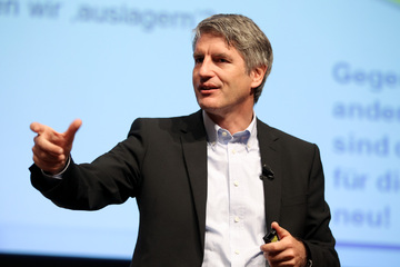 Georg Kraus